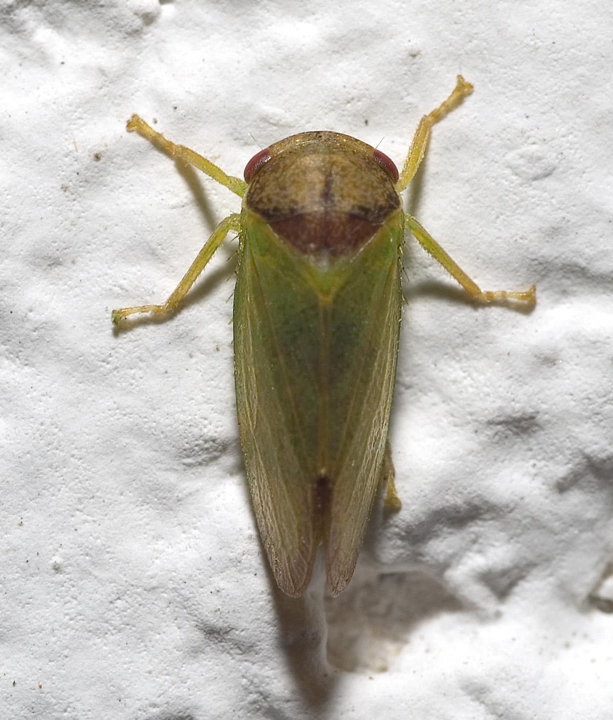 Please report references to kulacgmx.at.